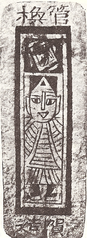 A woodcut printed Chinese playing card found near Turpan (or Turfan) (吐鲁番市), Xinjiang autonomus region, China, dated c. 1400 AD during the Ming Dynasty. From the Museum fur Volkerkunde, Berlin. Its dimensions are 9.5 cm by 3.5 cm.